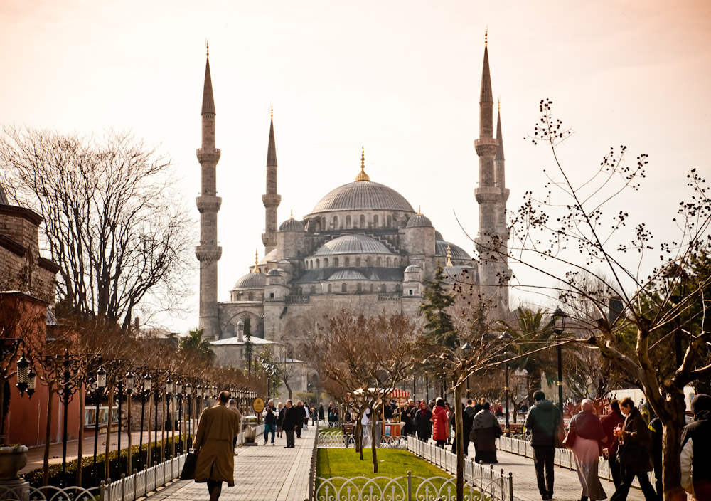 die blaue moschee